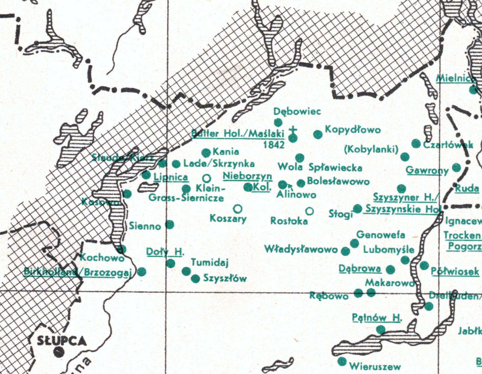 German settlements in 1938 around Maślaki